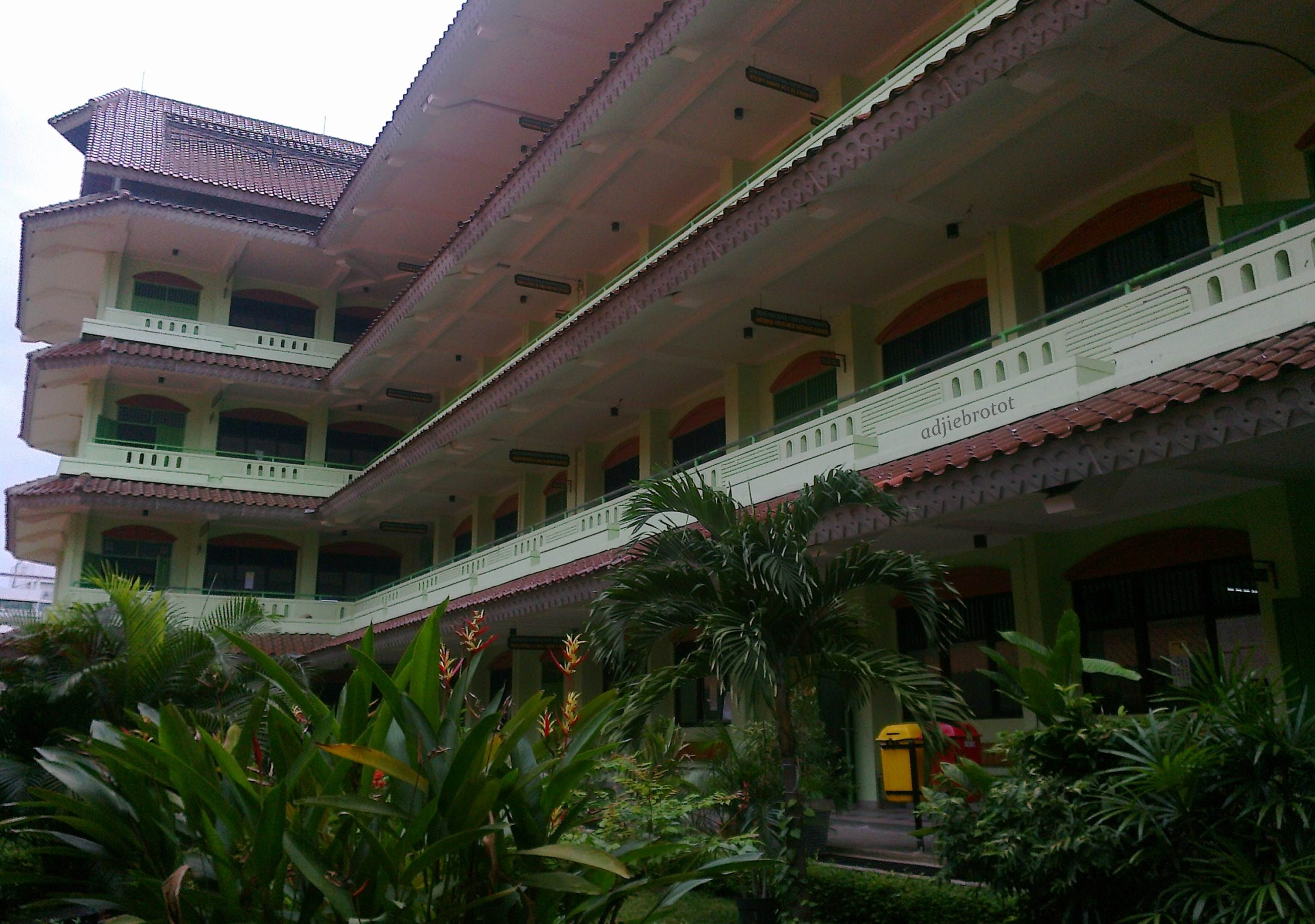 New Building of State Junior High School 1 by Adjiebrotot